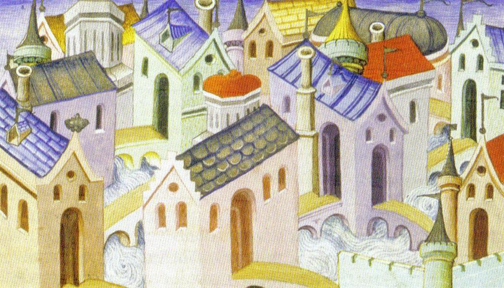 A picture of Hangzhou from Livre des merveilles et autres récits de voyages et de textes sur l’Orient.